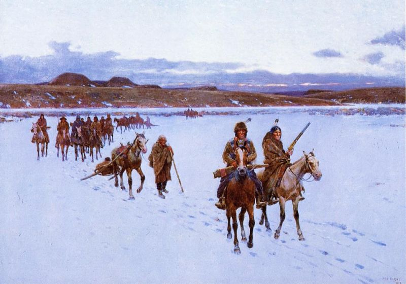 Departure for the buffalo hunt.